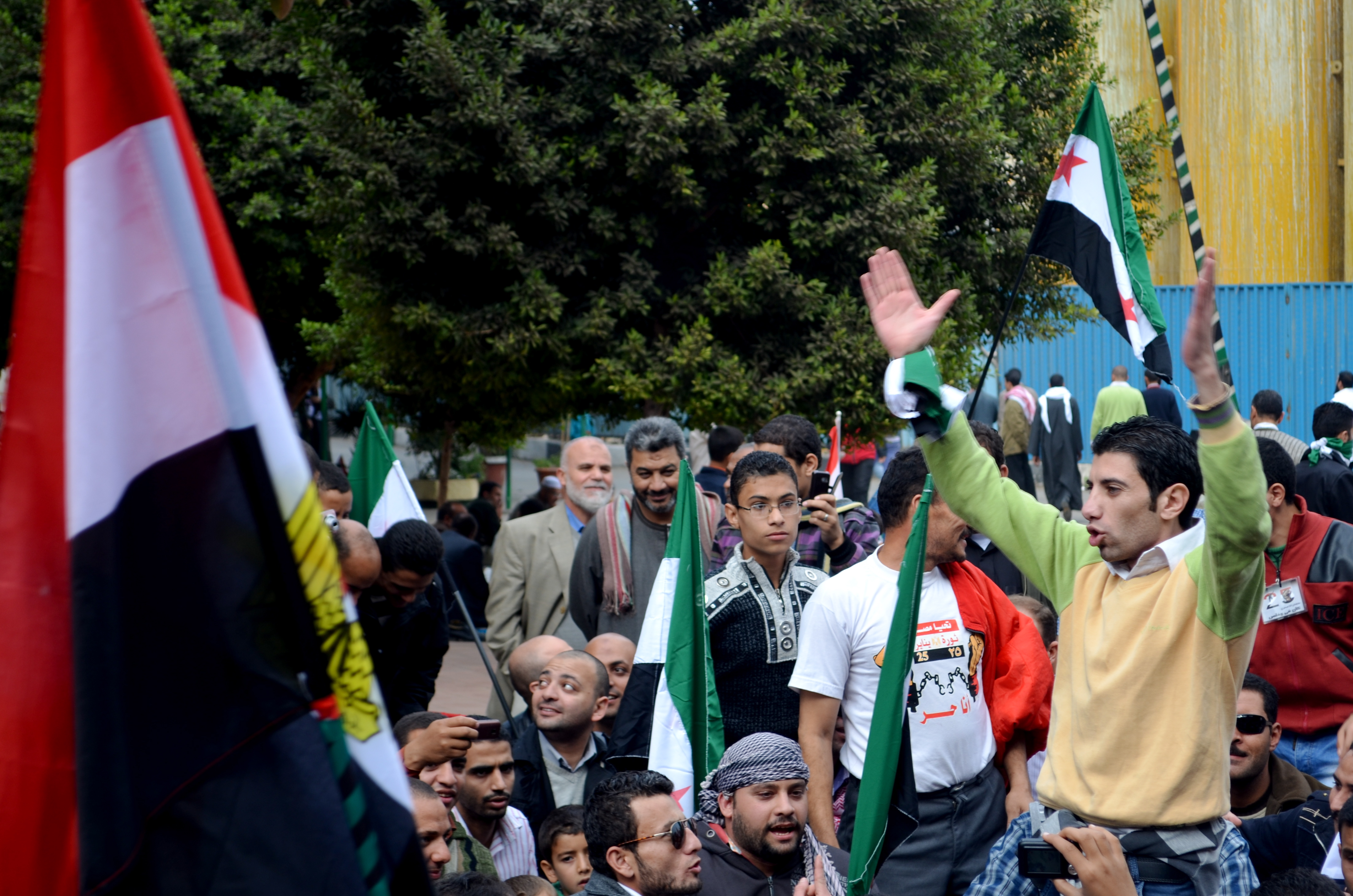 Islamist and secular protesters share the demand for the ruling Supreme Council of the Armed Forces to allow a presidential election by April 2012.